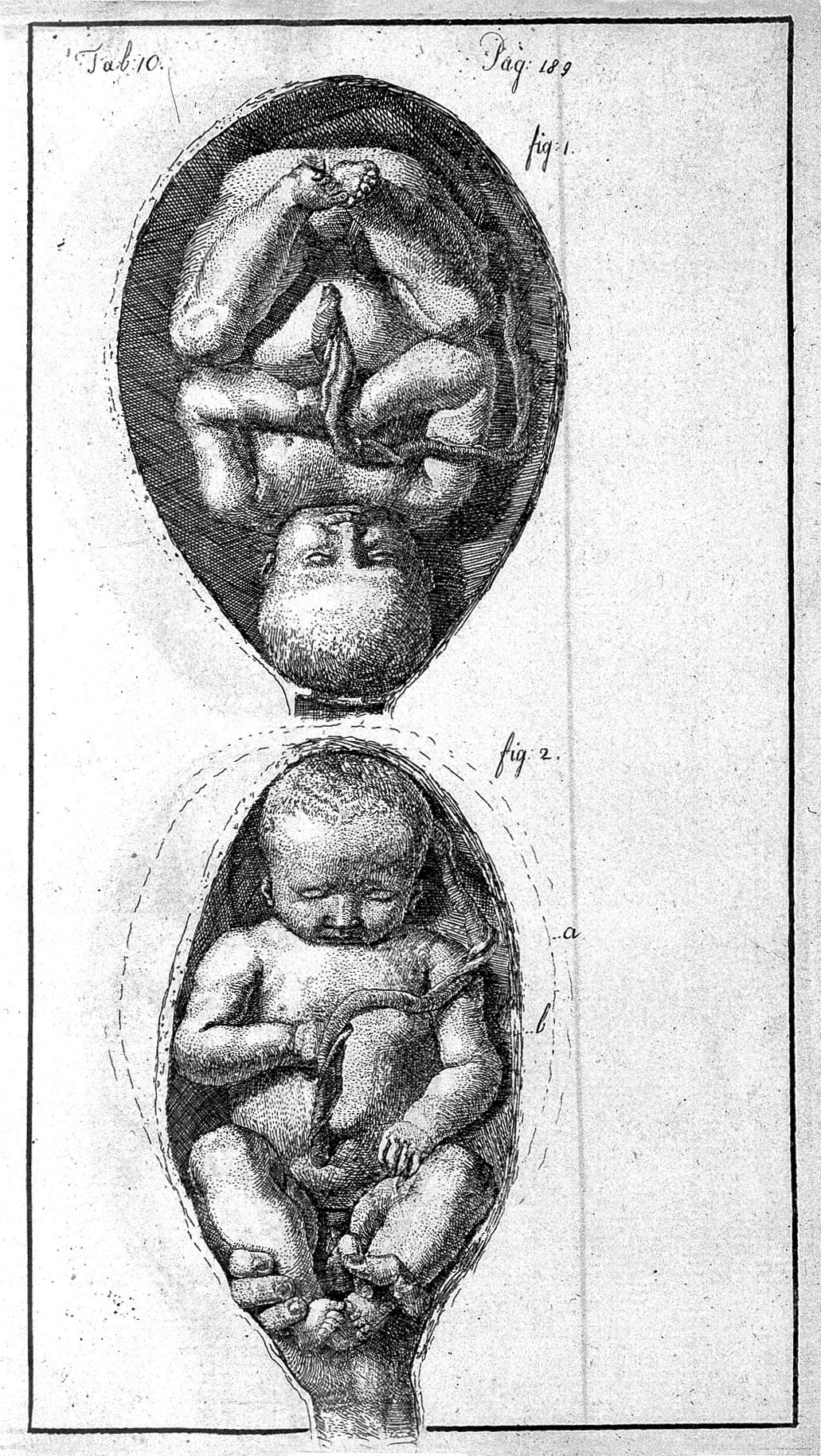 As tabula IX figure 2, front view and Child that offers its feet for the birth. Rare Books Keywords: breech delivery; Midwifery; Obstetrics; John Burton